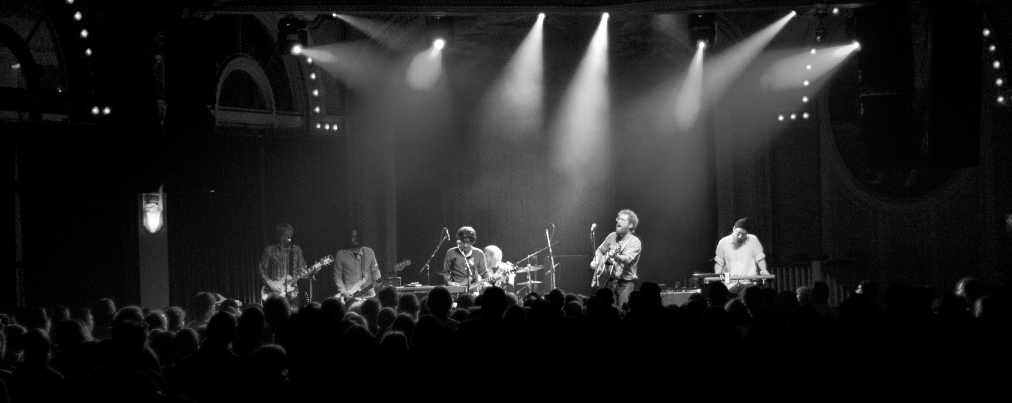 Blitzen Trapper at The Crystal Ballroom on January 25th, 2009